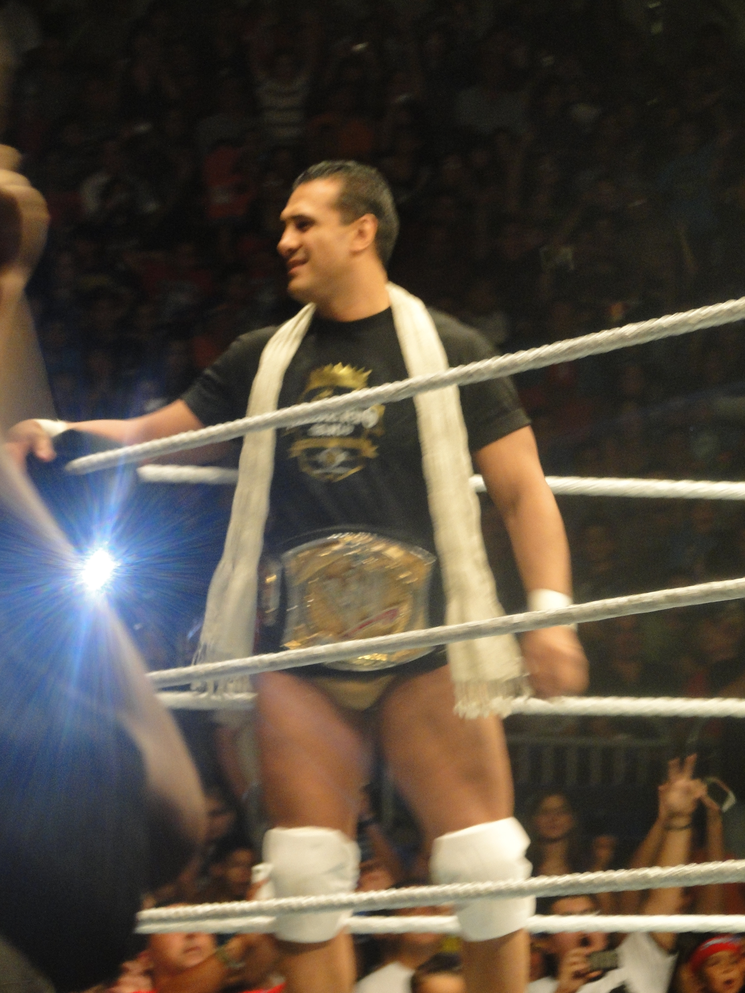 Alberto Del Rio at a WWE live event in Puerto Rico.